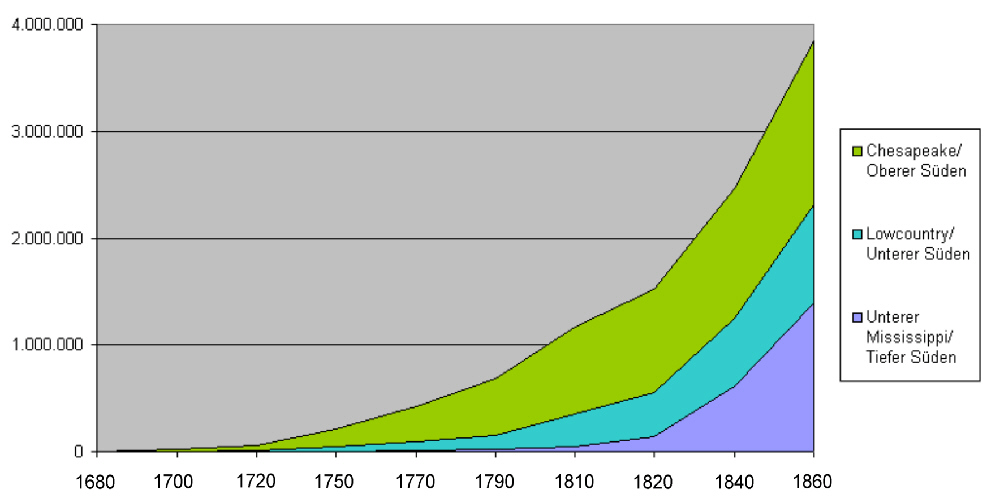 Chart: Numbers of slaves in the USA, South only, 1680 thru 1860; data source: Ira Berlin: Generations of Captivity: A History of African-American Slaves, Cambridge, London: The Belknap Press of Harvard University Press, 2003, ISBN 0-674-01061-2